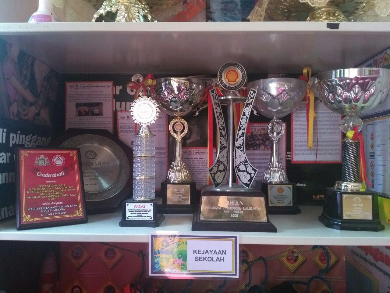 Pencapaian Sekolah